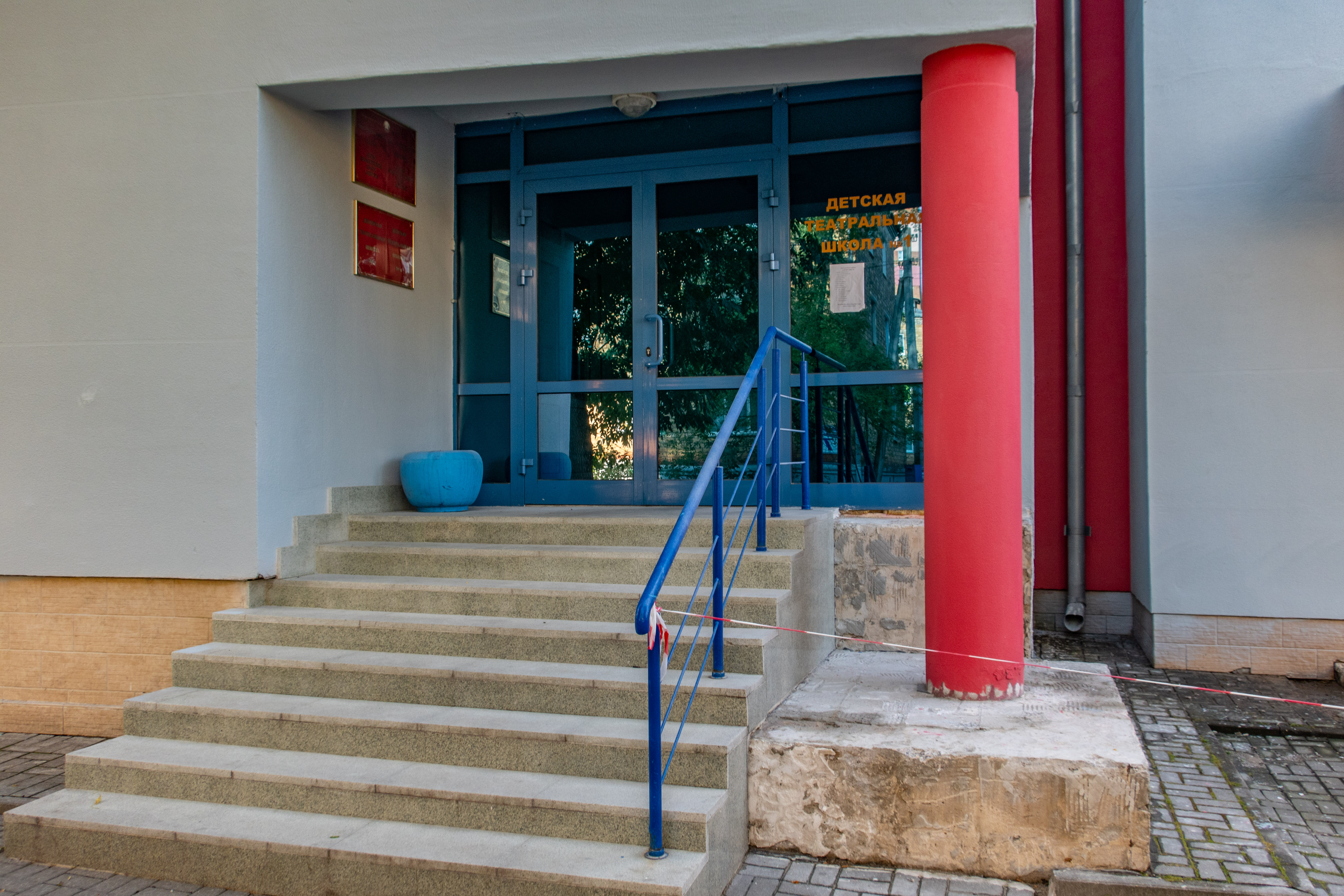 Šasejnaja street. Children theatre school. Minsk, Belarus